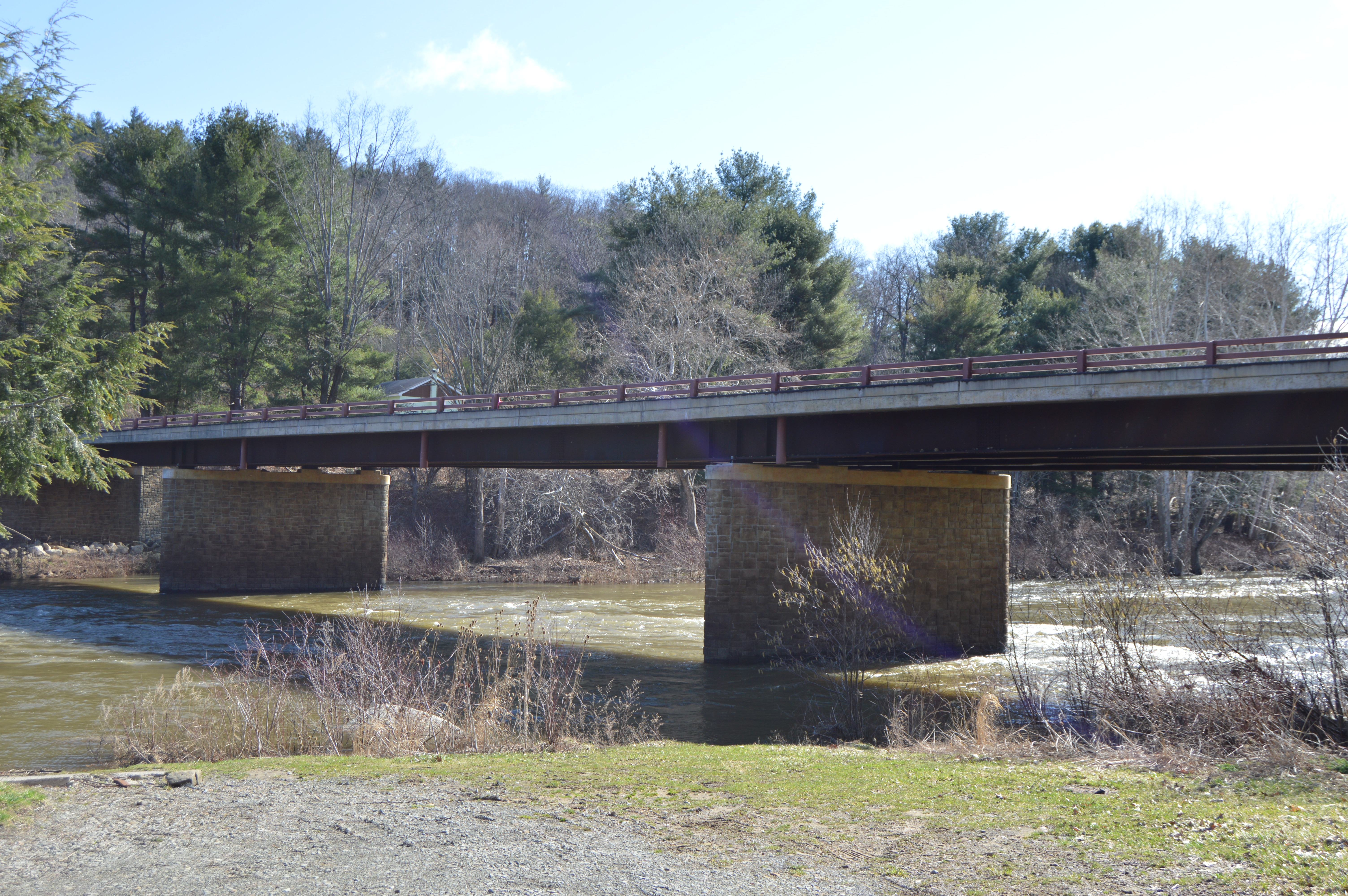 Western (downstream) side of the replacement Arroyo Bridge, which carries Arroyo-Portland Road over the Clarion River in Spring Creek Township, Elk County, Pennsylvania, United States. It was built in the 2000s to replace a historic steel truss bridge, the piers of which support the concrete structure.